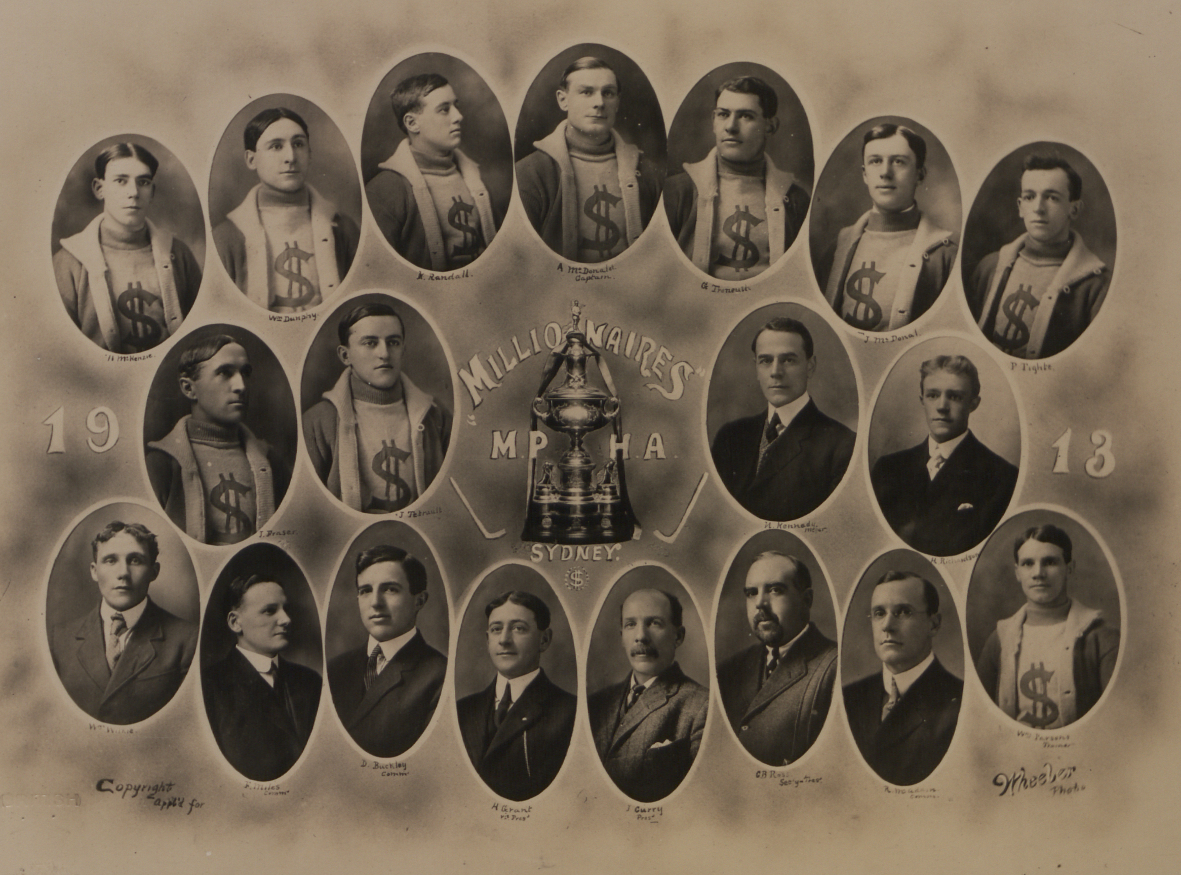 Original caption: “Millionaires-Maritime Provinces Hockey Association [Composite of 19 portraits].”